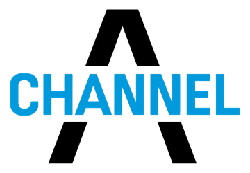 Channel A Logo